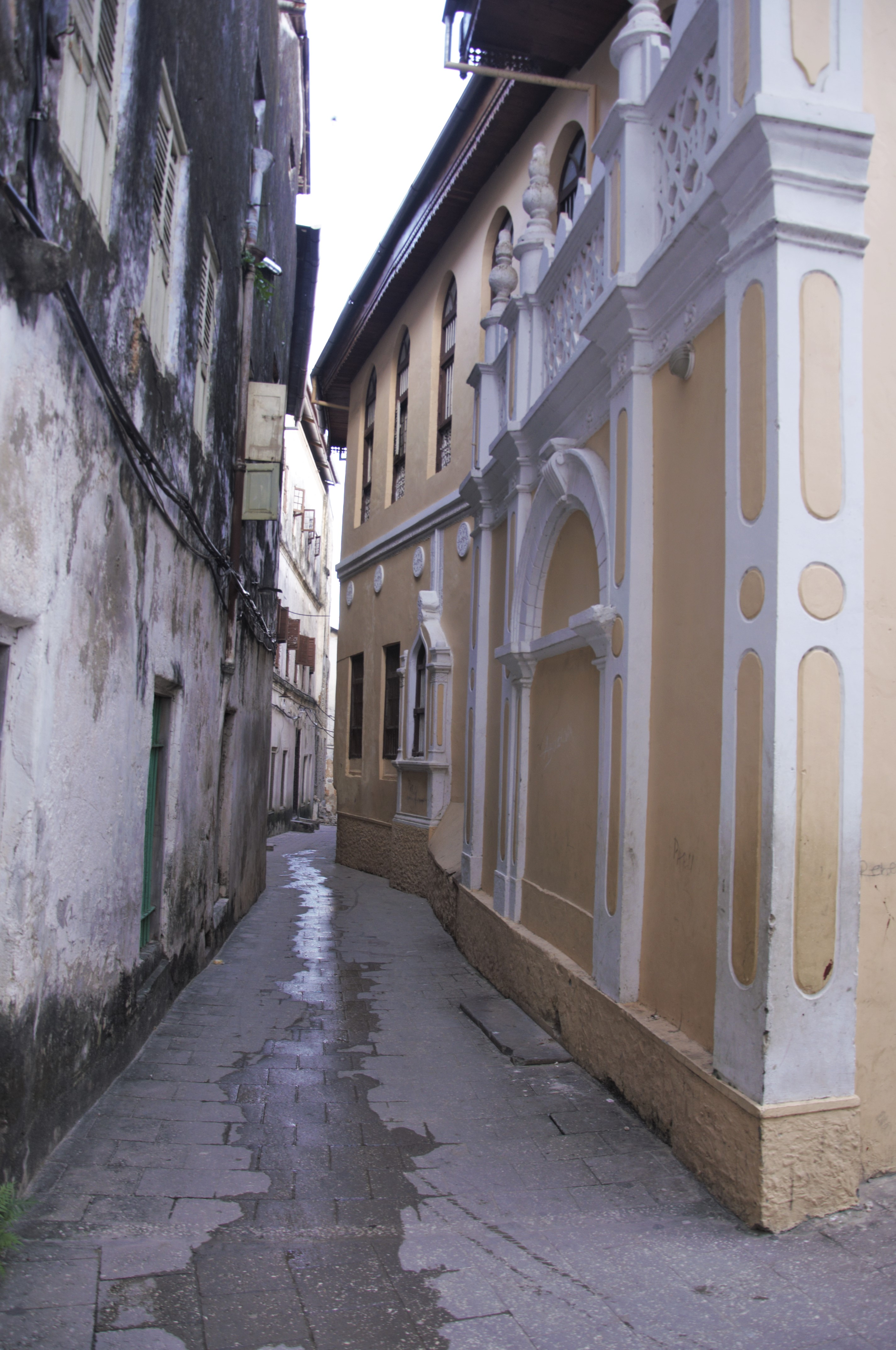 The narrow alley in the stone city of Zanzibar. This photo has been taken by Prof. Chen Hualin.